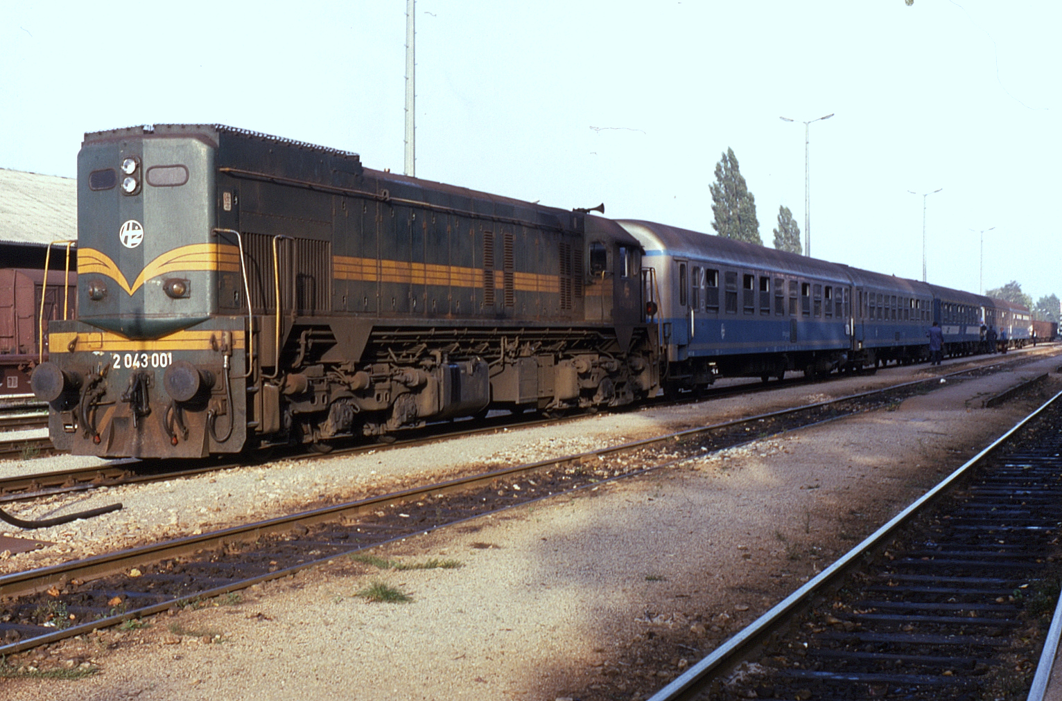 Taken during my first trio to Croatia in 1994, seen at Čakovec is 2043.001 on train 993, 17:13 Kotoriba to Zagreb Gl.kol.